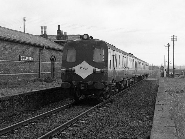 Train at Eglinton stationOne of NIR's 80-class DMUs passes the long closed Eglinton station with the 14.40 passenger train from Londonderry (Waterside) to Belfast (Central). The station buildings have since been demolished.